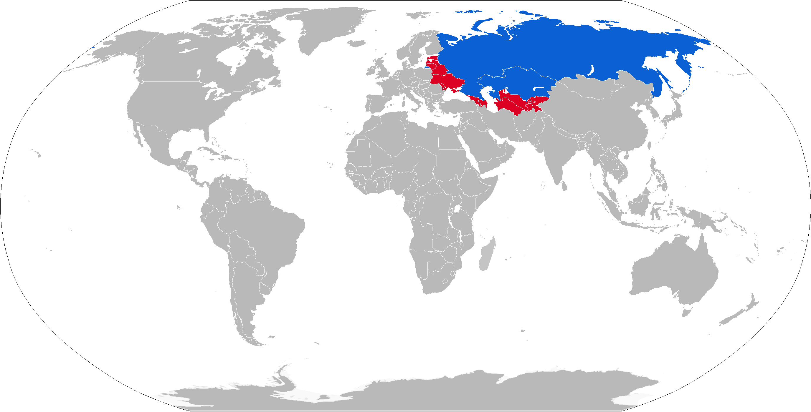 Map with operators of the MiG-31 in blue and former operators in red